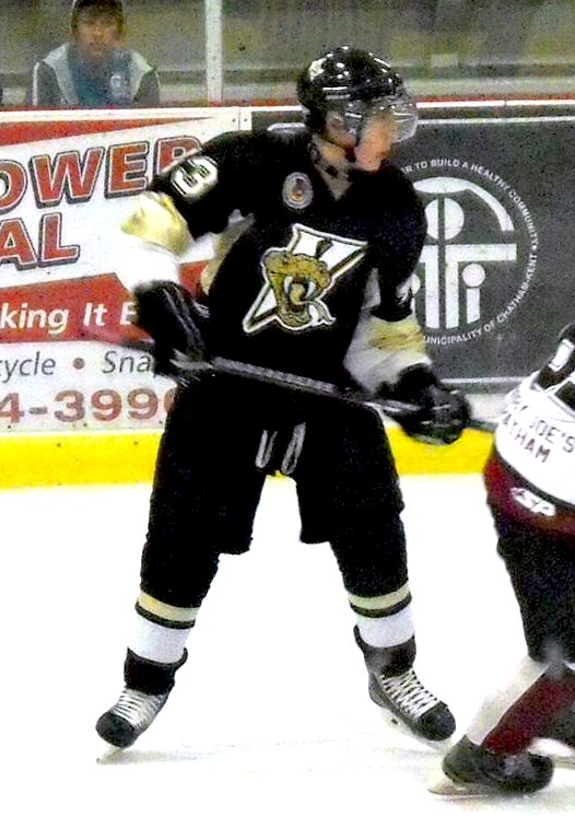 This photo was taken by Devan Mighton during the 2013-14 GOJHL season.